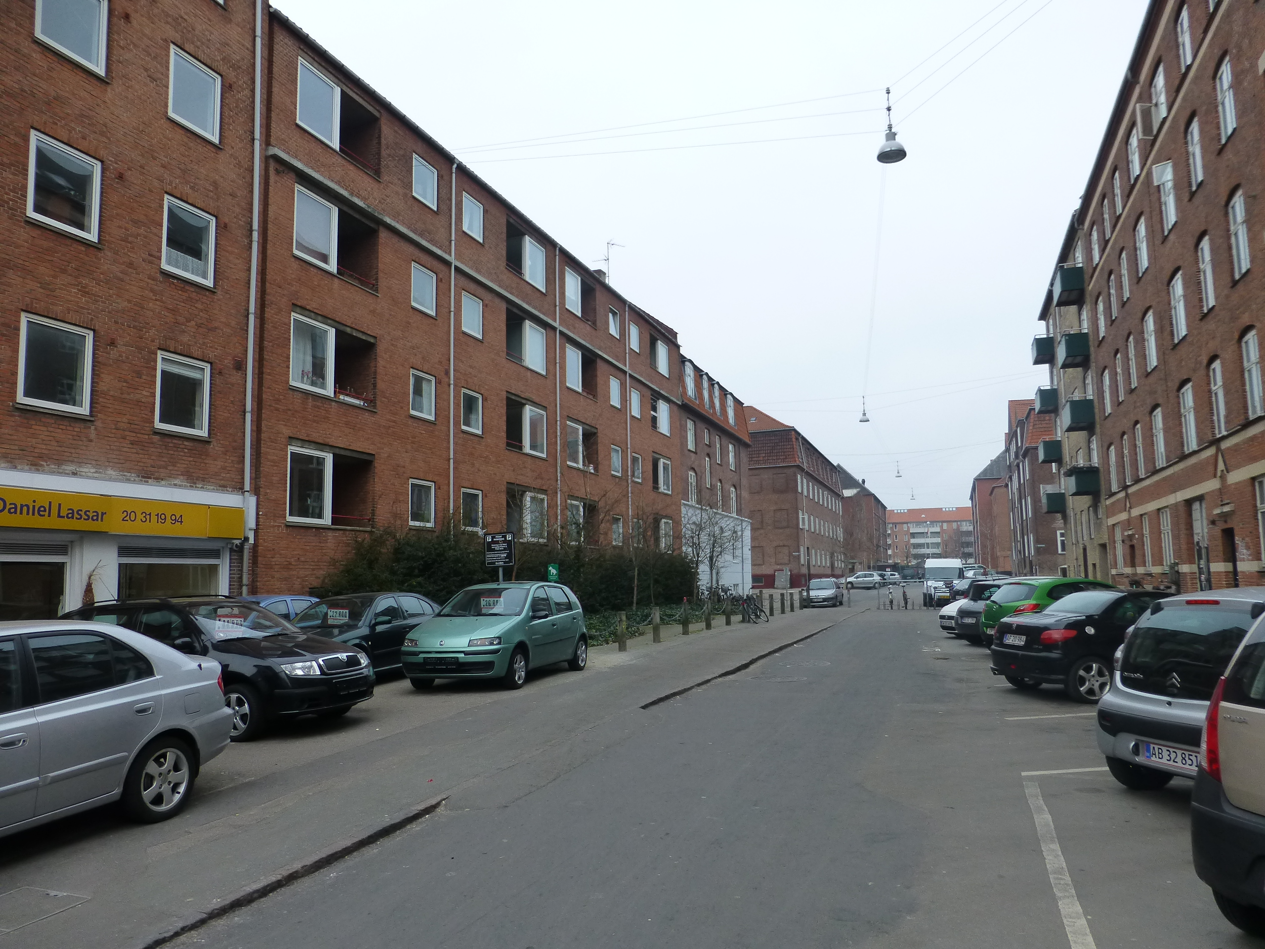 Brynhildegade is a street in Nørrebro in Copenhagen.